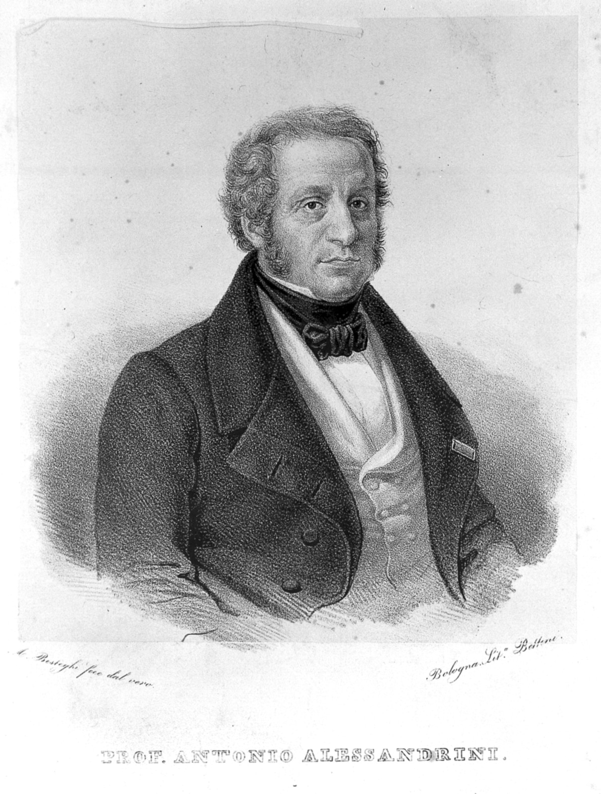 Half length portrait of Alessandrini, painted from life Iconographic Collections Keywords: Antonio Alessandrini; Besteghi